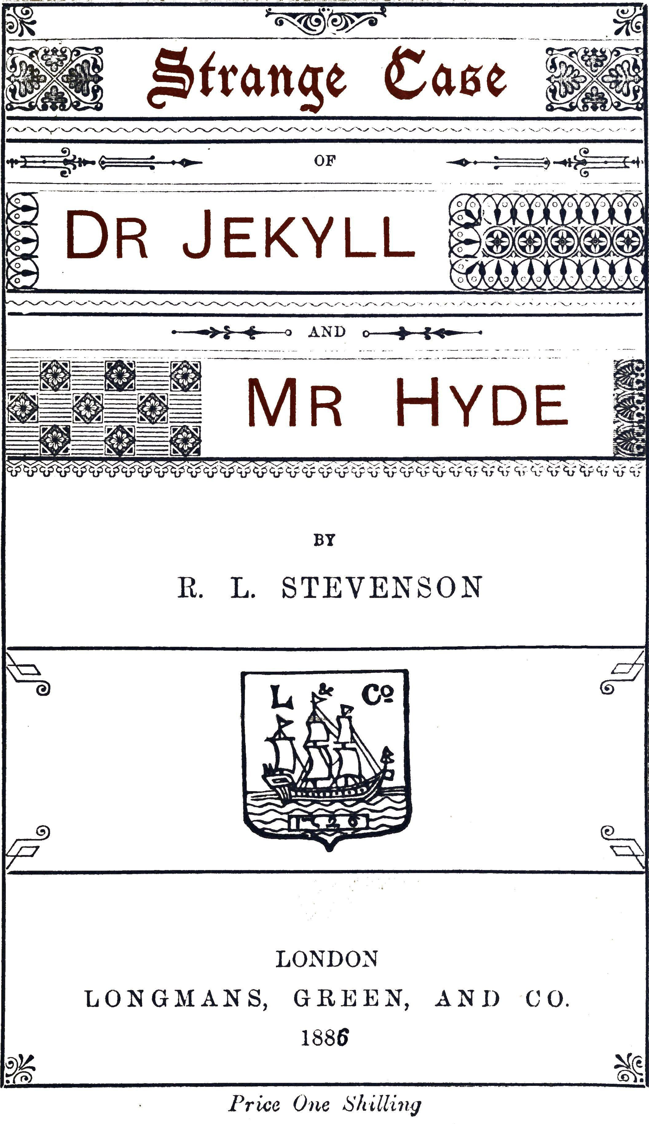 Cover page of the book Strange Case of Dr Jekyll and Mr Hyde